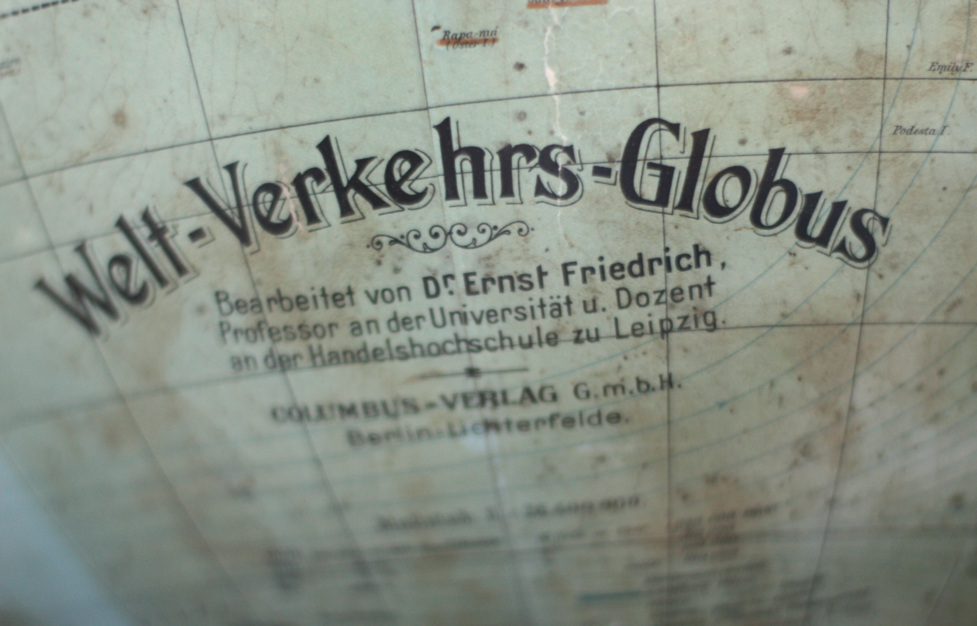 Übersee-Museum Bremen Native nameÜberseemuseumLocationBremenCoordinates53° 05′ 00″ N, 8° 48′ 38″ E Establishedcirca 1911Website control : Q333527 VIAF: 130904288 ISNI: 0000 0001 2259 6632 LCCN: n80132944 GND: 37491-X SUDOC: 032711492 WorldCat Globus